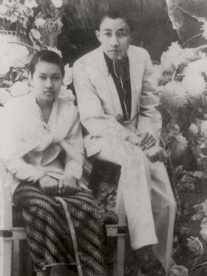 Husein Aidid (right) with his wife, Saodah (left).